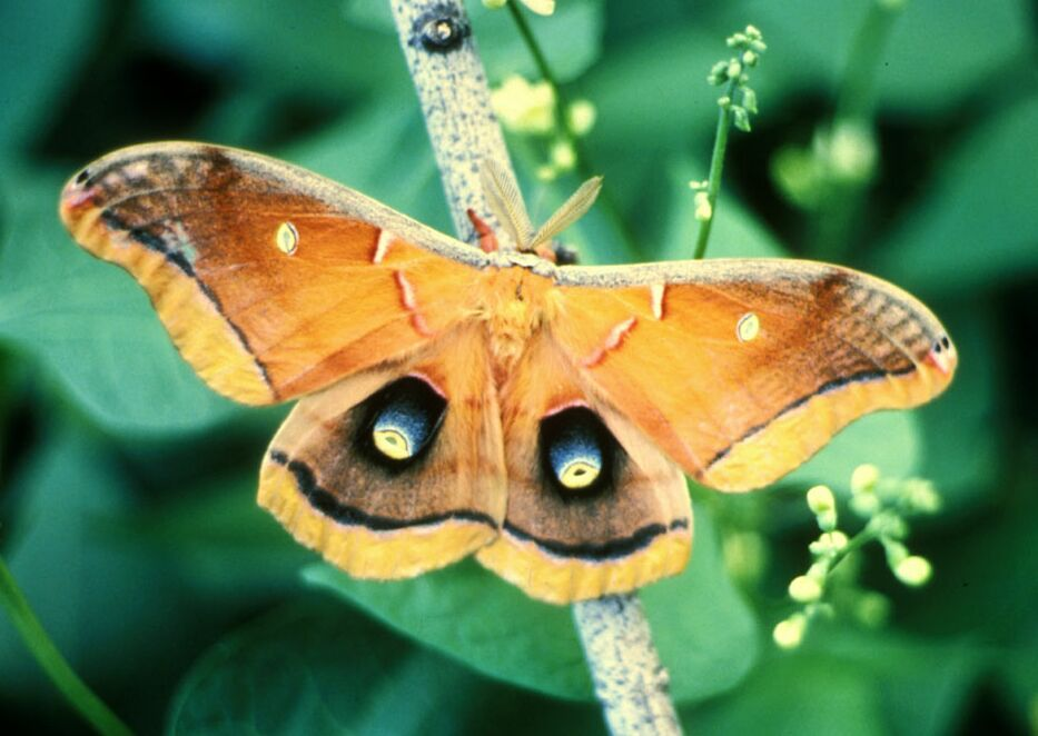 This is a photo from the US Parks and Wildlife Public Domain Photo Library ( cropped to a more usable size.